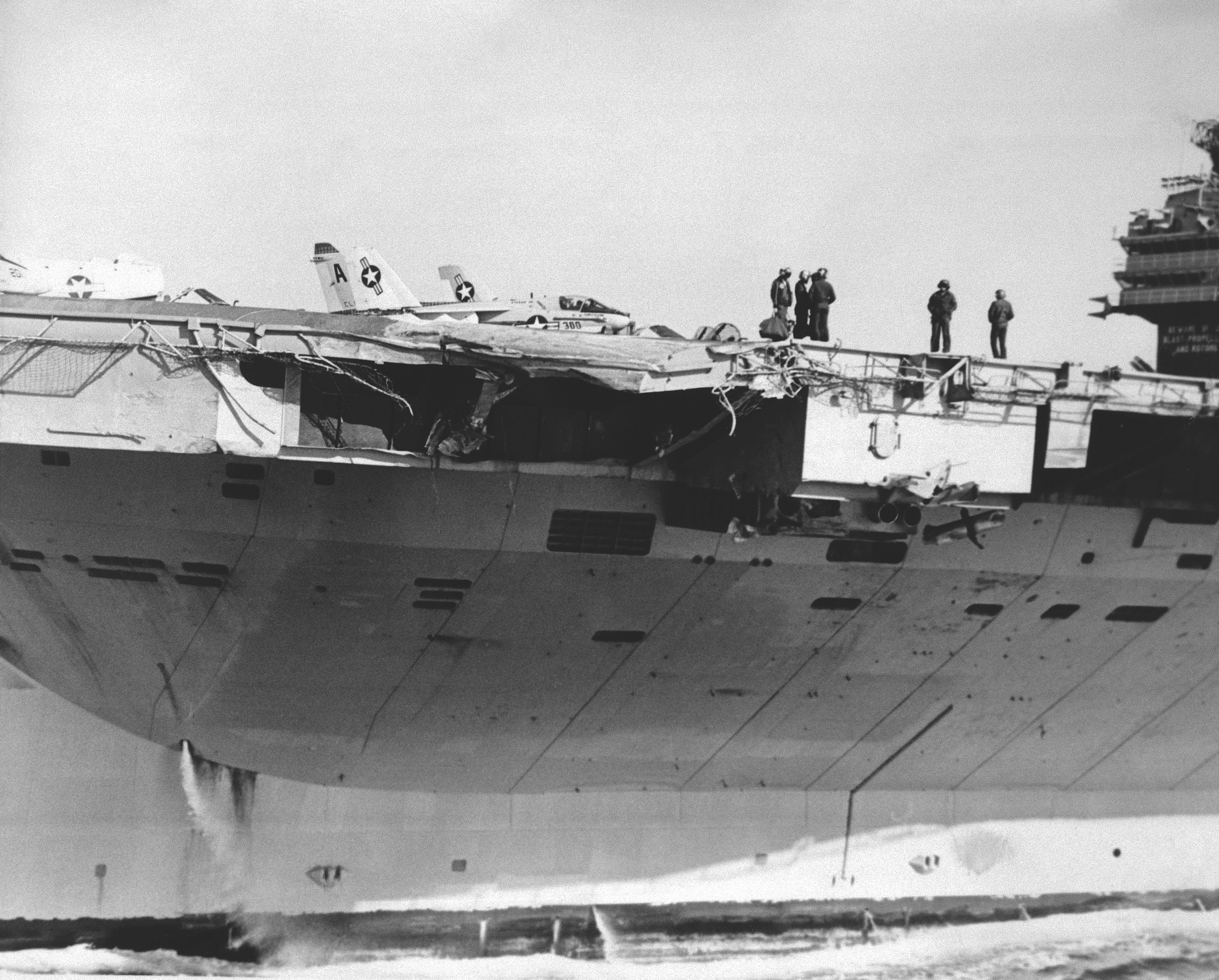 A view of damage sustained by the aircraft carrier USS JOHN F. KENNEDY (CV 67) when it collided with the guided missile cruiser USS BELKNAP (CG 26) during night operations on November 22, 1975. Location: IONIAN SEA